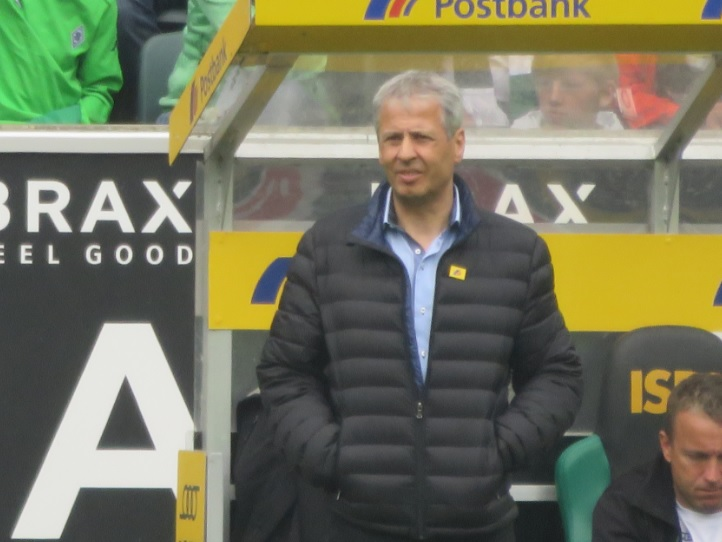 Lucien Favre